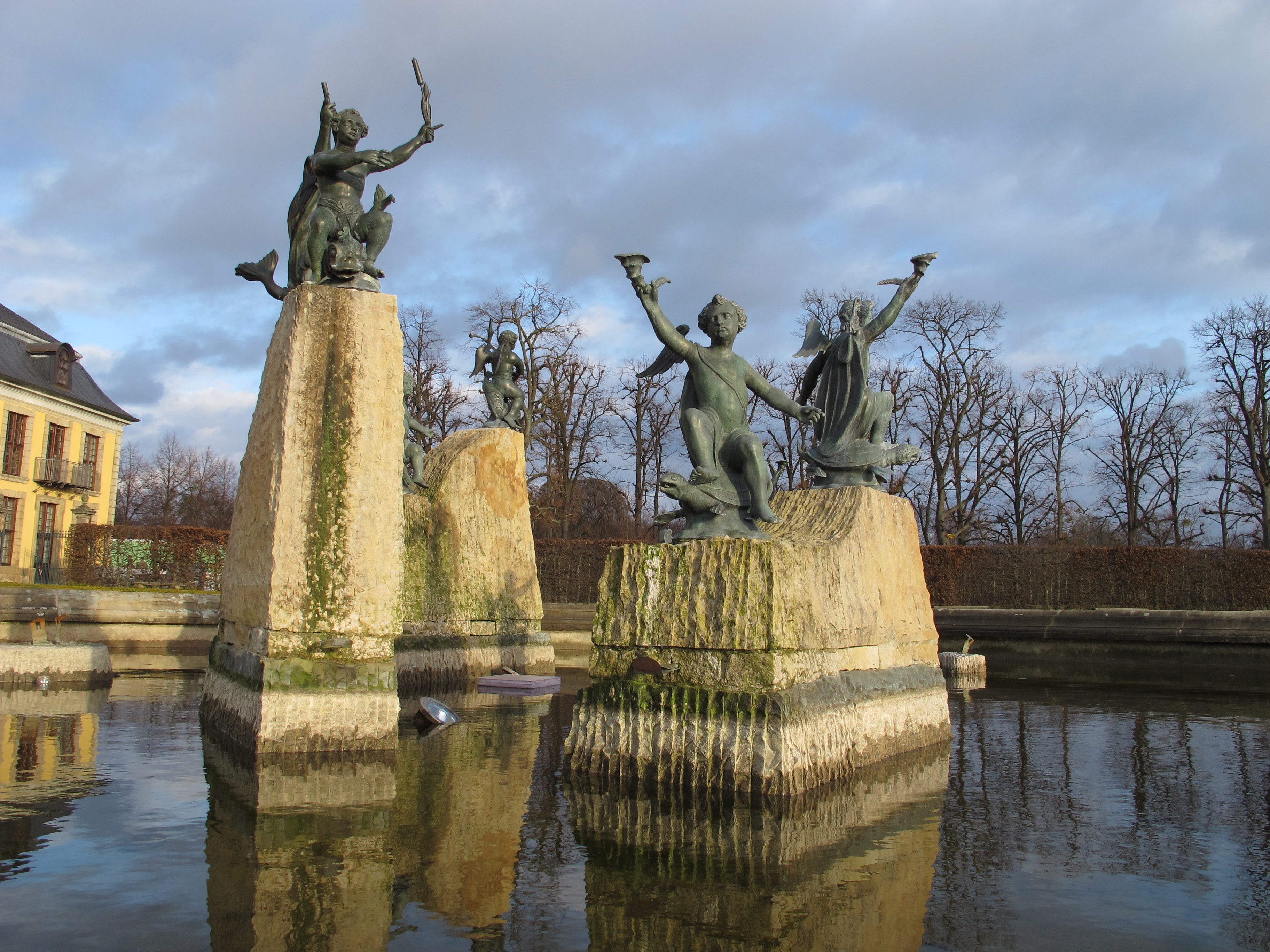 Details of the "Neptune Fountain" in the "Großer Garten" in Hannover-Herrenhausen (Germany)